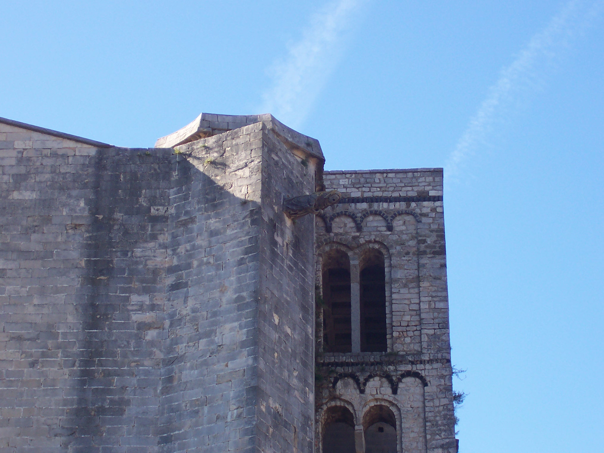 The witch of stone of the Cathedral of Girona, Catalonia, Spain.